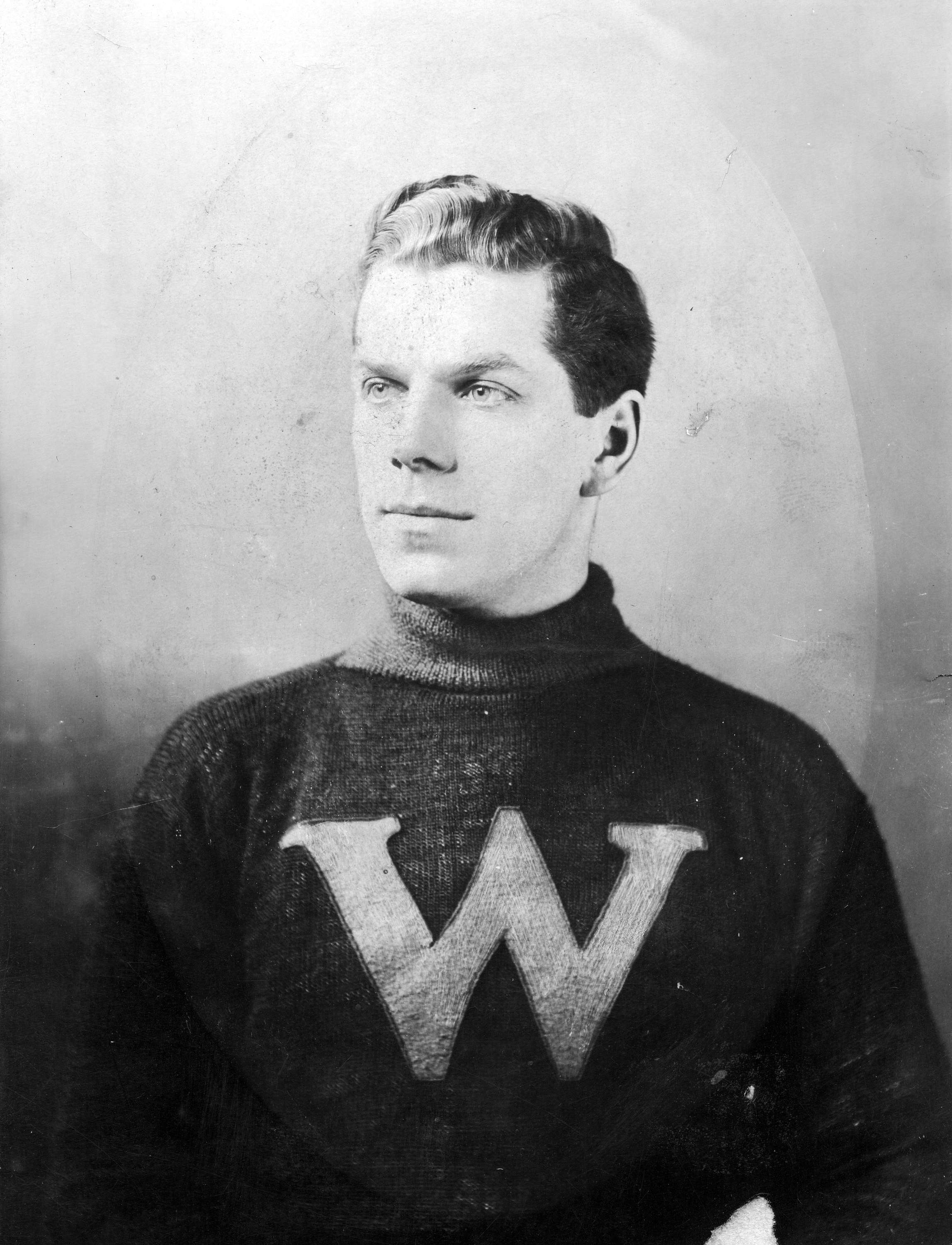 Photograph of ice hockey player Ken Mallen, New Westminster Hockey Team Champions P.C.H.A.